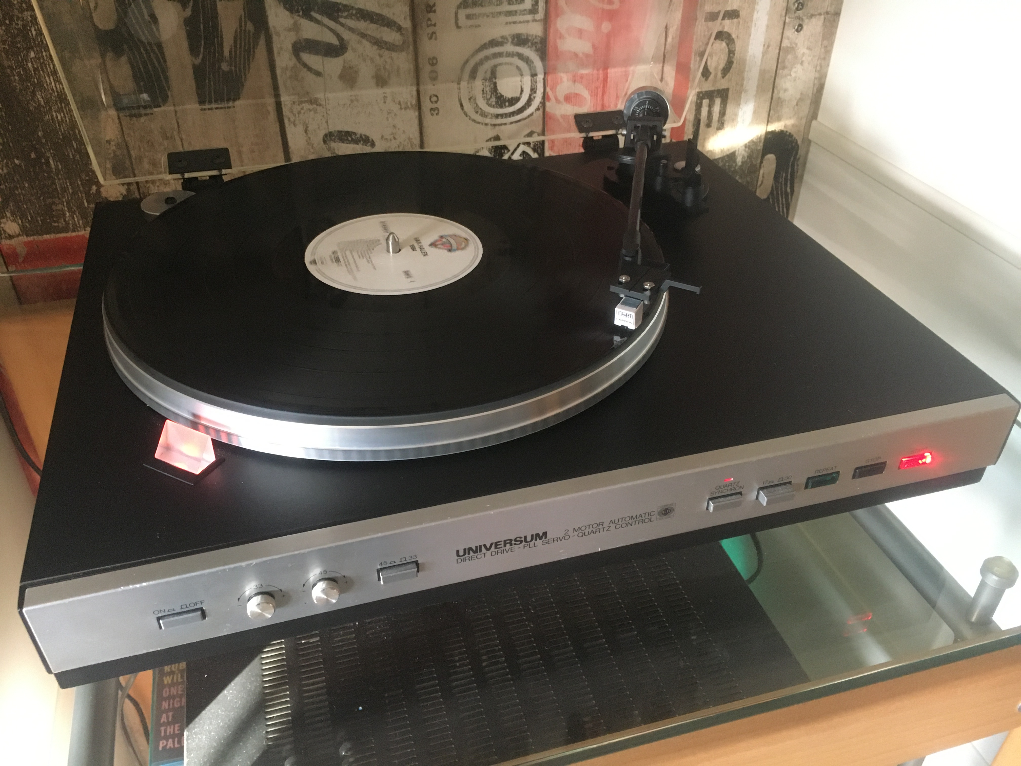 Turntable "Universum F 2002" playing Van Halen's 1984. Universum was the audio-video house brand of Quelle mail-order company. The F2002 was a rebadged (and probably stripped-down) Micro Seiki DQ44. The Micro Seiki original, made in 1980-1981, had faux woodgrain plinth with black front plate; the Universum has black top and silver front.